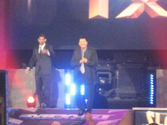 Sunday, June 12, 2011. Universal Orlando. Hector Guerrero and Willie Urbina.